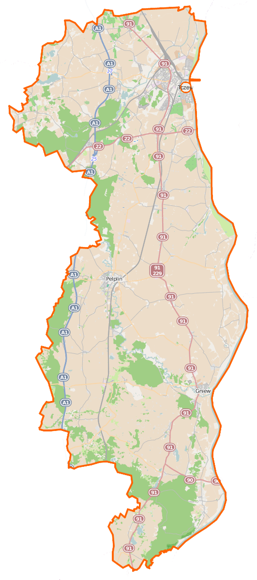 Map of Powiat tczewski, Poland This map of Powiat tczewski was created from OpenStreetMap project data, collected by the community. This map may be incomplete, and may contain errors. Don't rely solely on it for navigation.